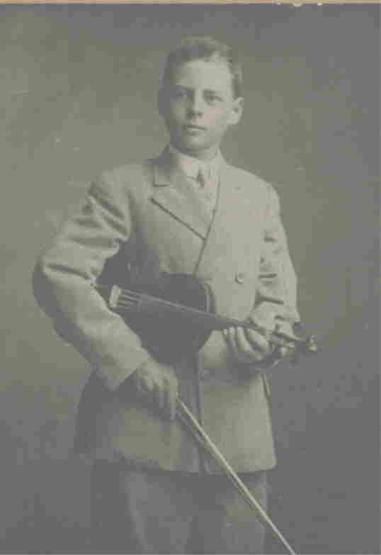 Picture of Young Scott Willits